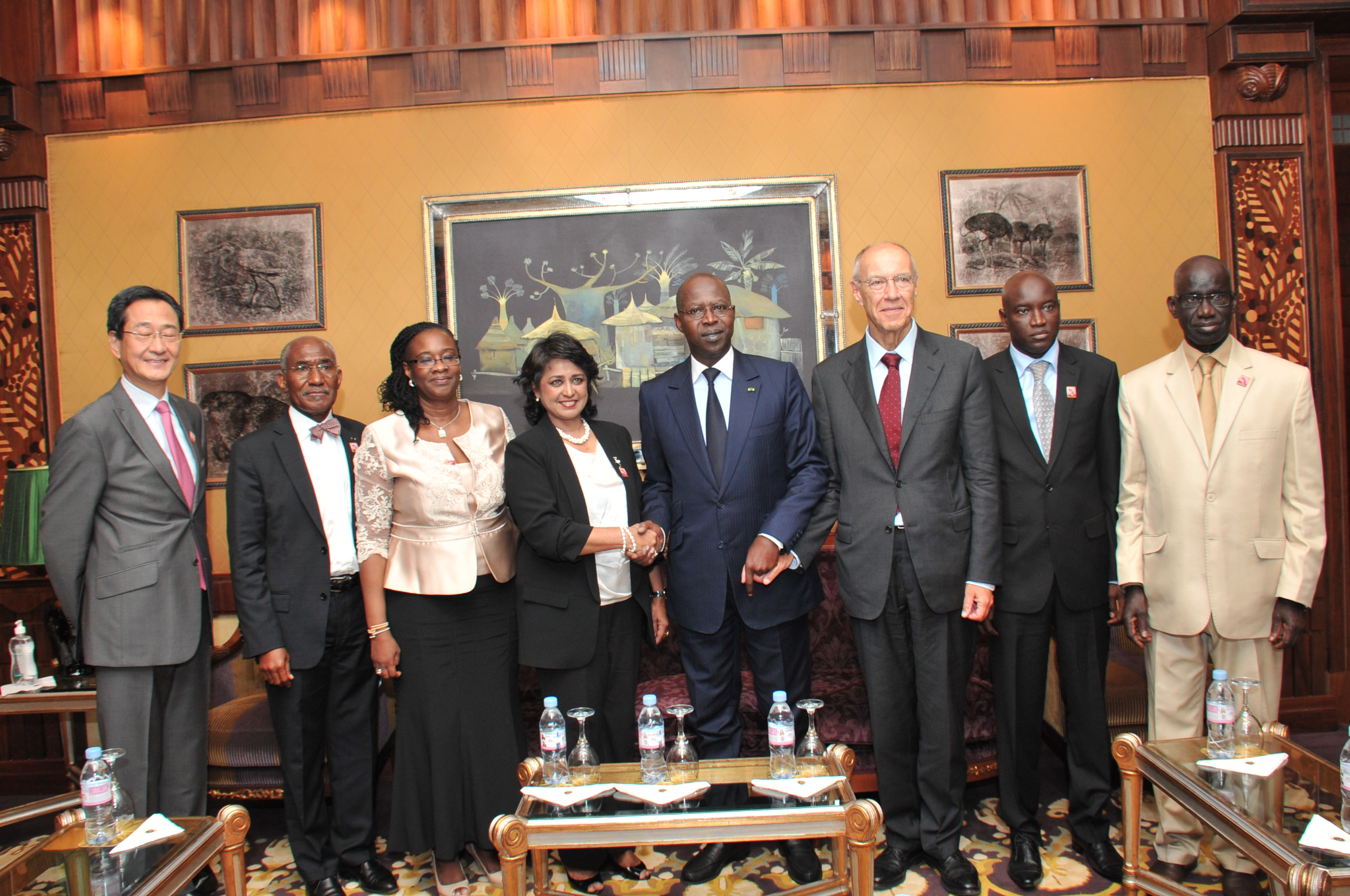 High level participants gather ahead of the opening of the African Ministerial Conference 2015: Intellectual Property for an Emerging Africa, which met from November 3 – 5, 2015 in Dakar, Senegal. From left to right: Takashi Kitahara, Ambassador of Japan to Senegal, Martial De-Paul Ikounga, Commissioner for Human Resources, Science and Technology of the African Union UNDP Resident Representative in Senegal Bintou Djibo, Mauritius President Ameenah Gurib-Fakim, Senegal Prime Minister Mahammed Boun Abdallah Dionne, WIPO Director General Francis Gurry, Senegal's Minister of Industry and Mines Aly Ngouille Ndiaye and Senegal's Minister of Culture and Communication Mbagnick Ndiaye. Copyright: WIPO. Photo: Cheikh Saya Diop. This work is licensed under a Creative Commons Attribution-ShareAlike 3.0 IGO License.